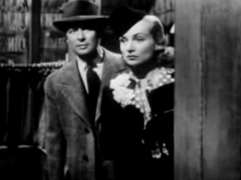 Cropped screenshot of Robert Montgomery and Carole Lombard from the trailer for the film Mr. & Mrs. Smith